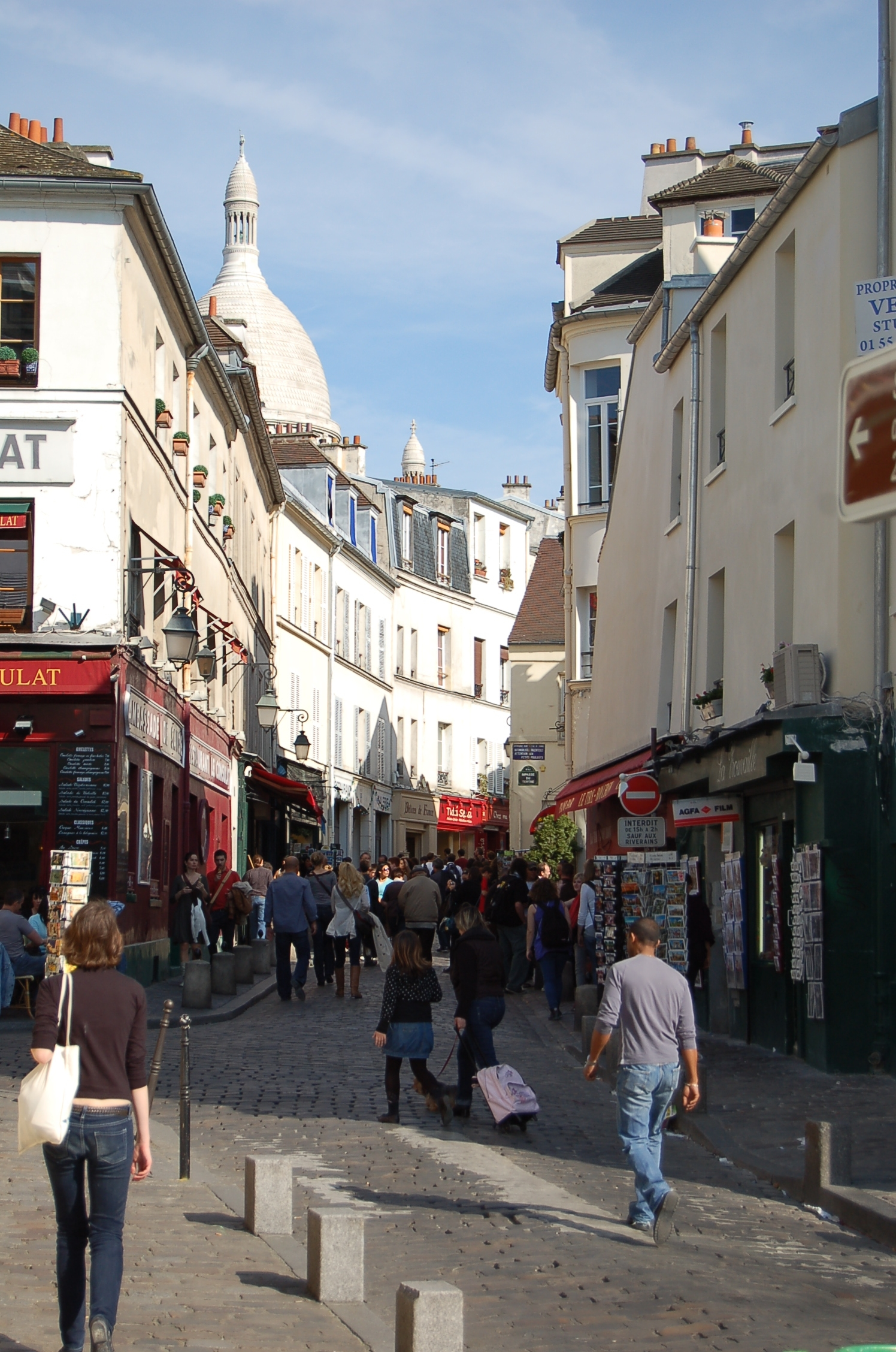 Rue Norvins in Montmartre, Paris, 18th, France.